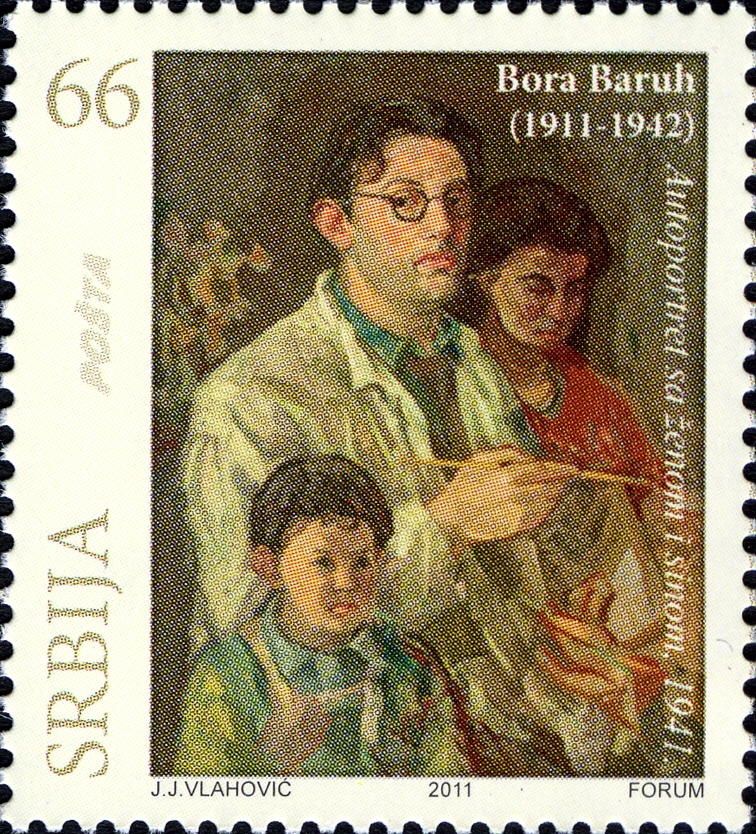 Art - 100 Years since the Birth of Bora Baruh